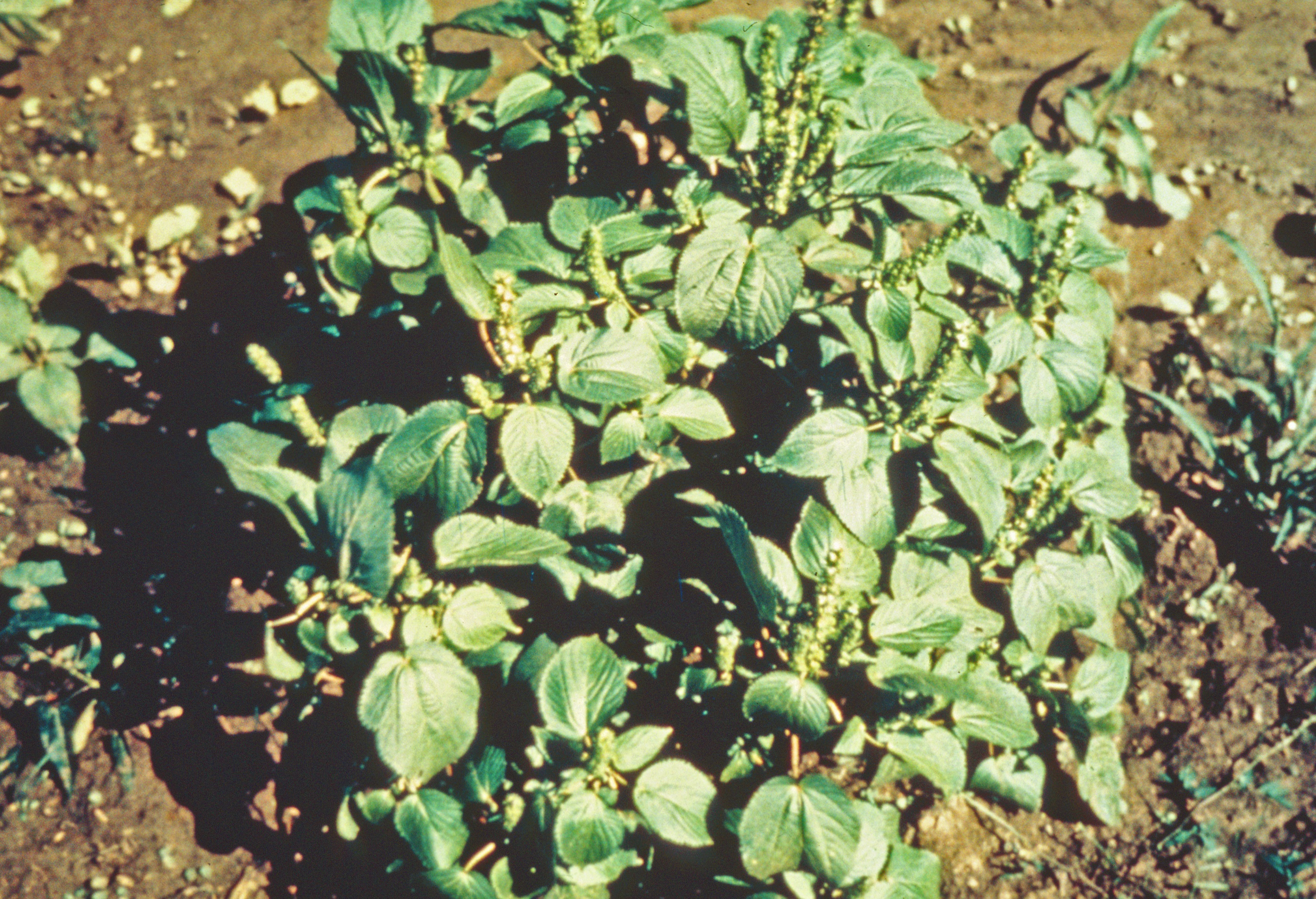 Acalypha virginica, USA